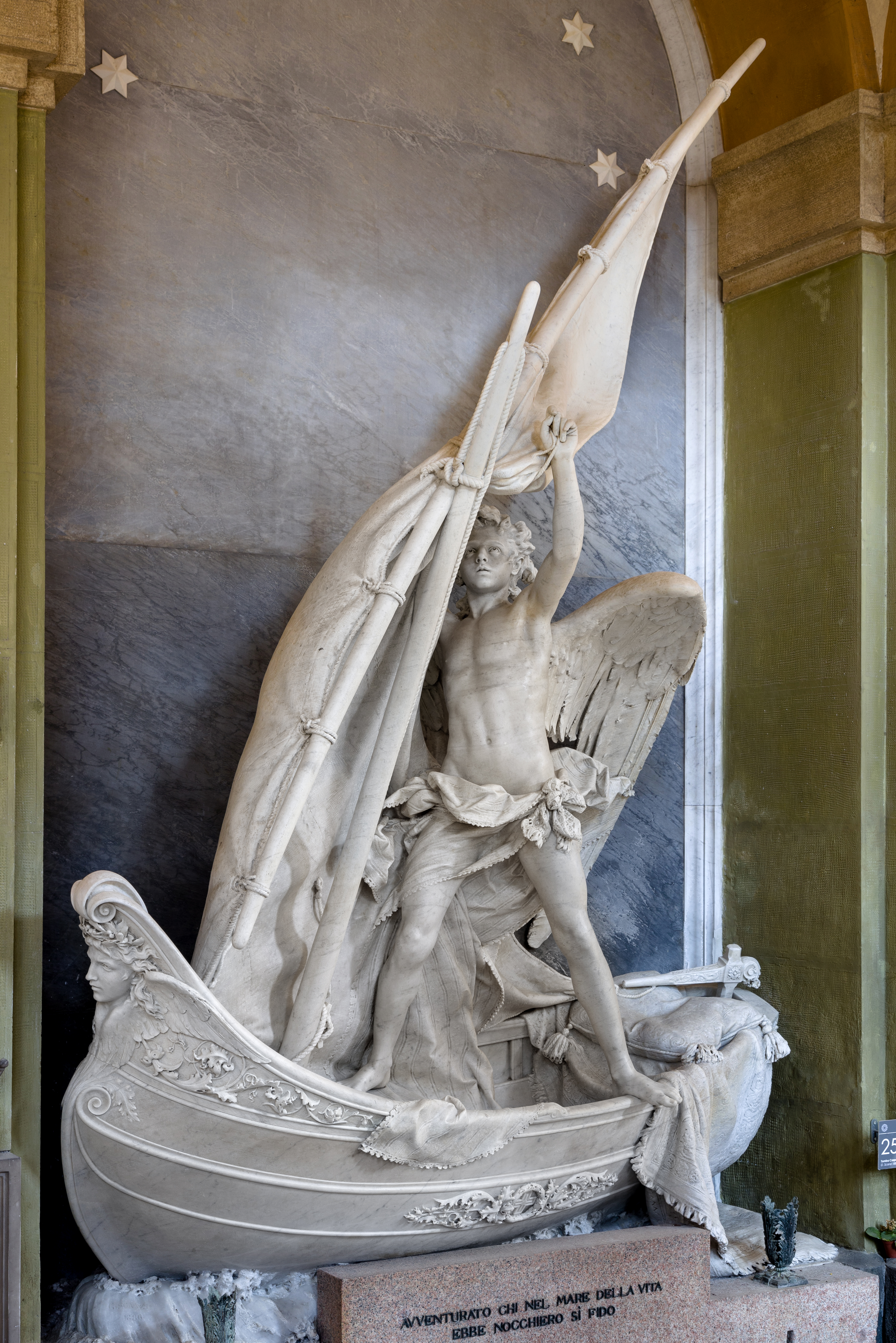 Cemetery monument, tomb of Giacomo Carpaneto (1811-1878) and family, XIXth century, restored in 2016